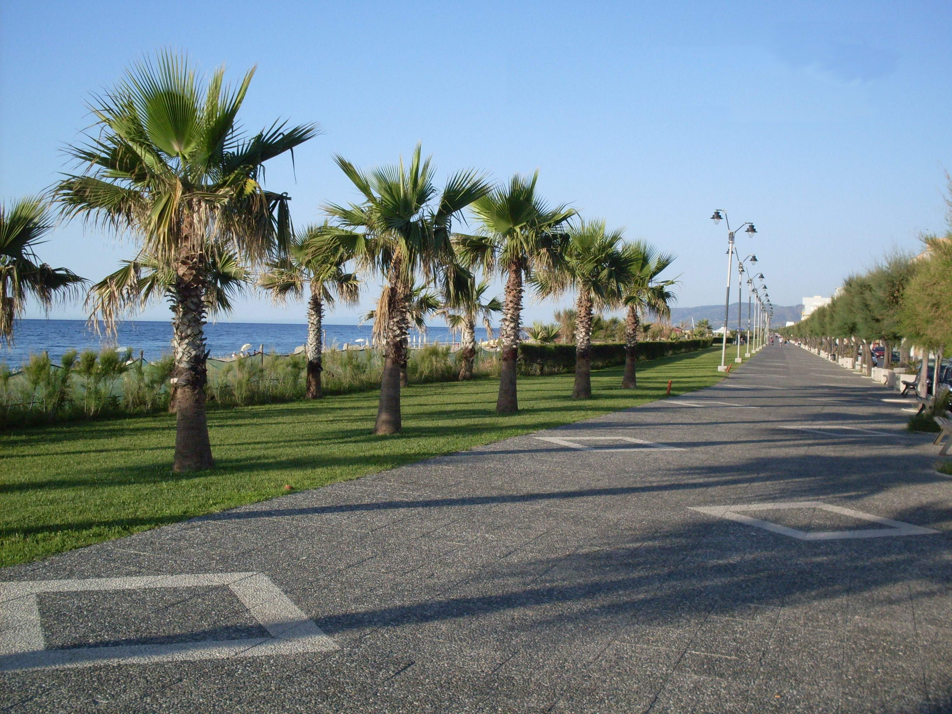 Seafront of Venetico Marina.